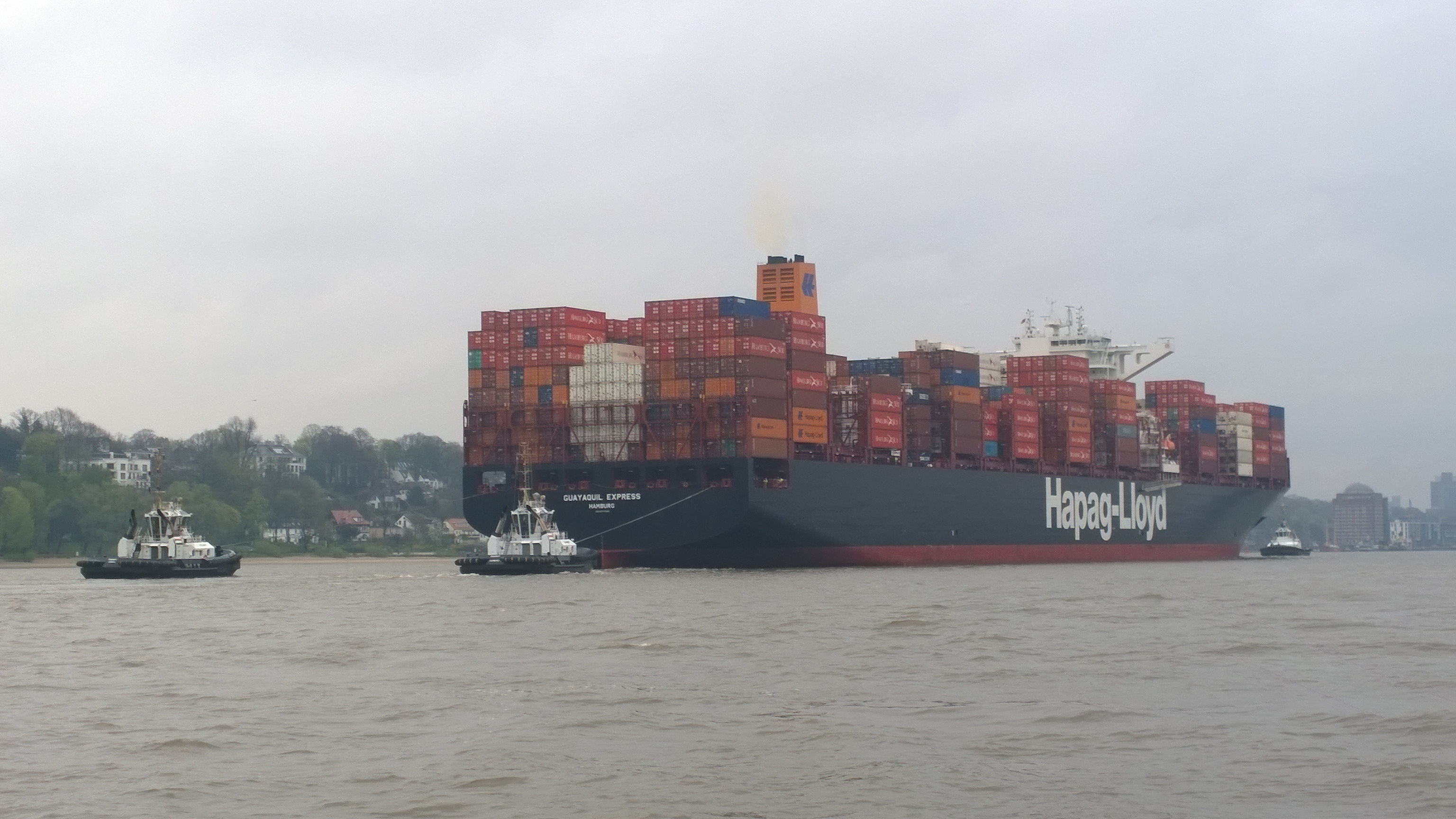 The new Hapag-Lloyd container ship Guayaquil Express on the river Elbe